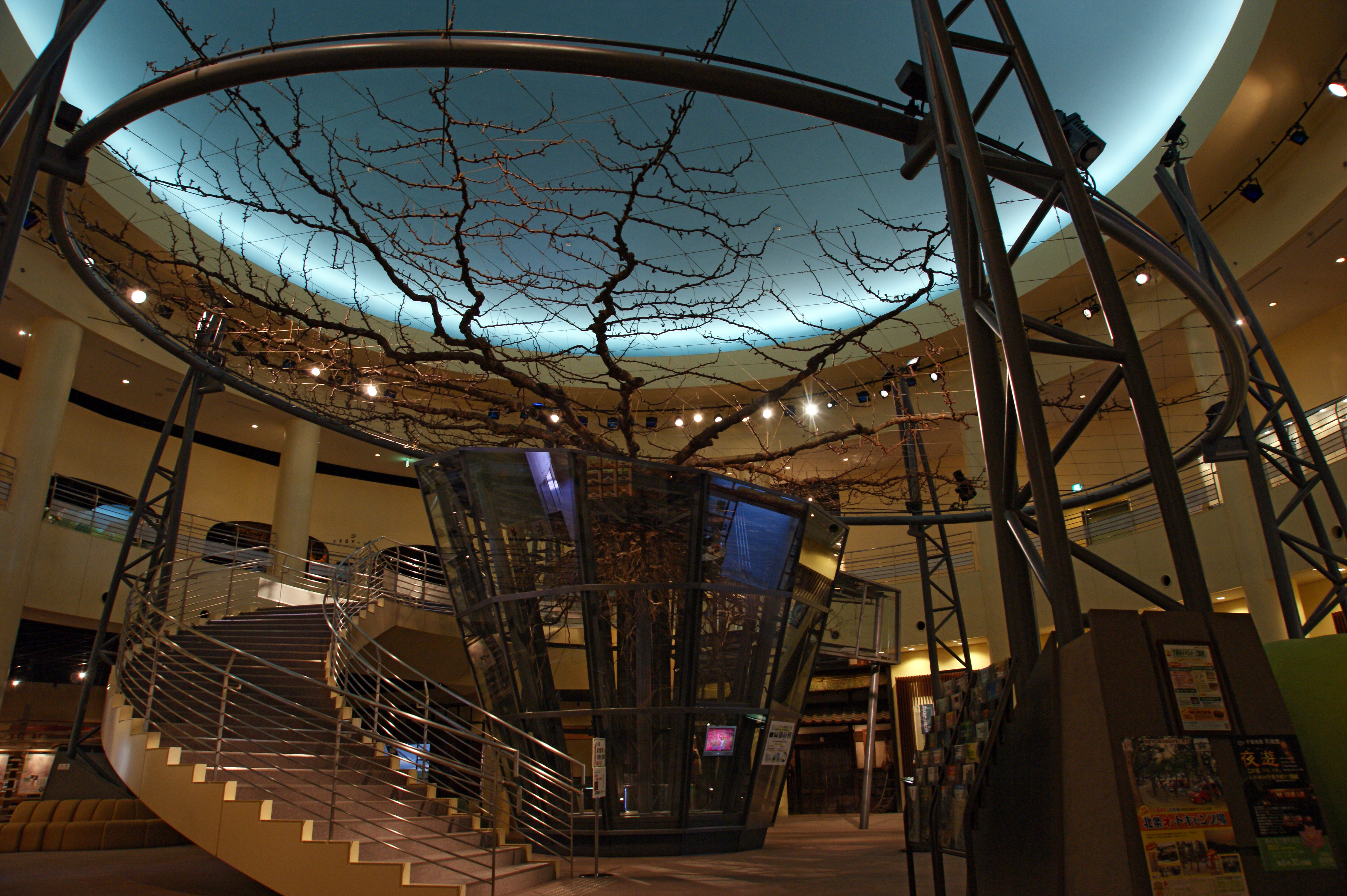 Tottori Nijisseiki Pear Museum in Kurayoshi, Tottori prefecture, Japan